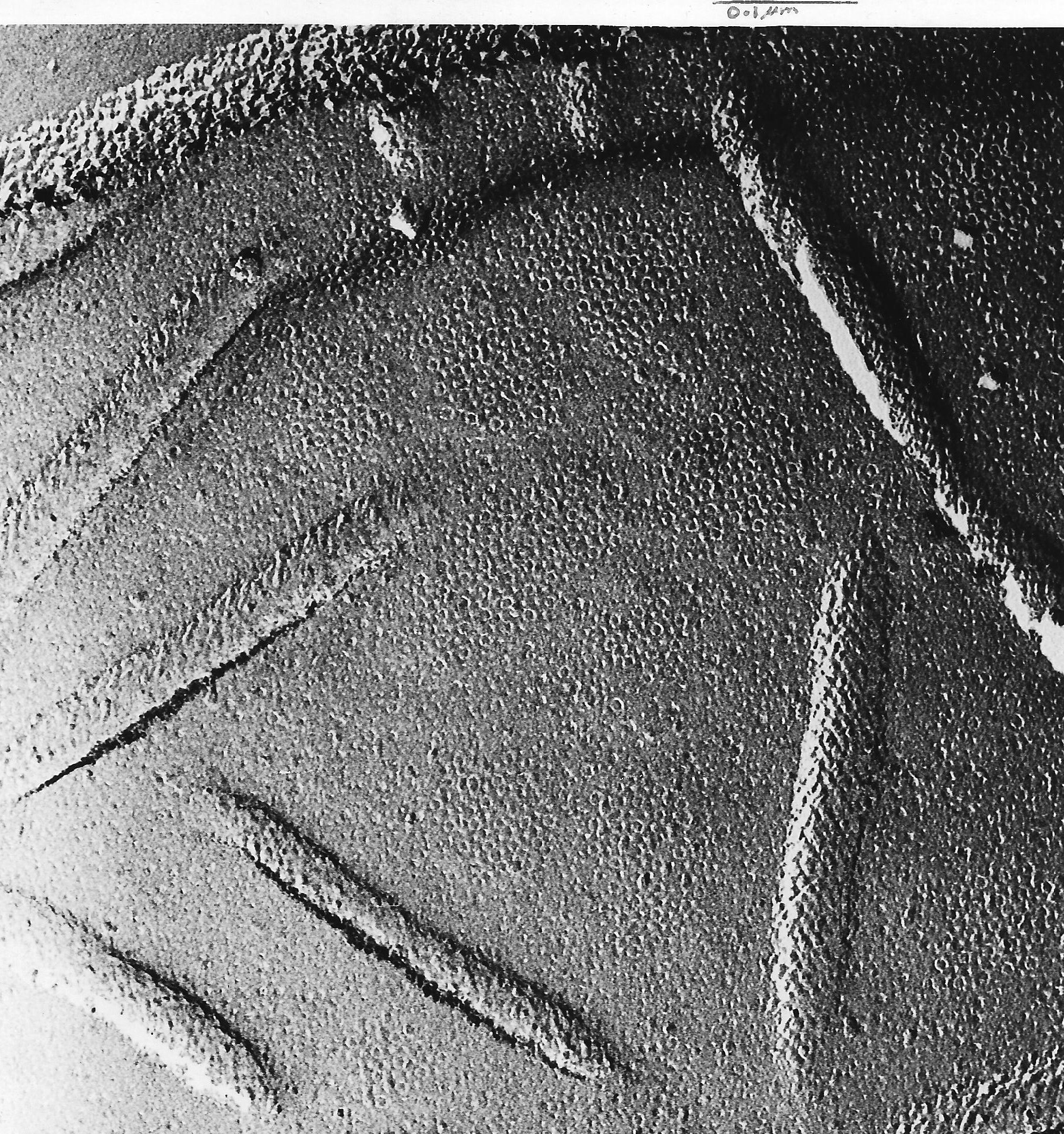 Freeze fracture replica of bakers yeast at -196 degrees celcius after brief fixation in 2% gluteraldehyde. Platinum replica of membrane made in 1984. Note 0.1 micron scale bar.